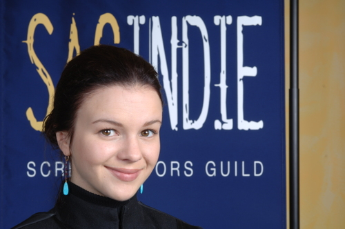 Amber Tamblyn at the Sundance Film Festival